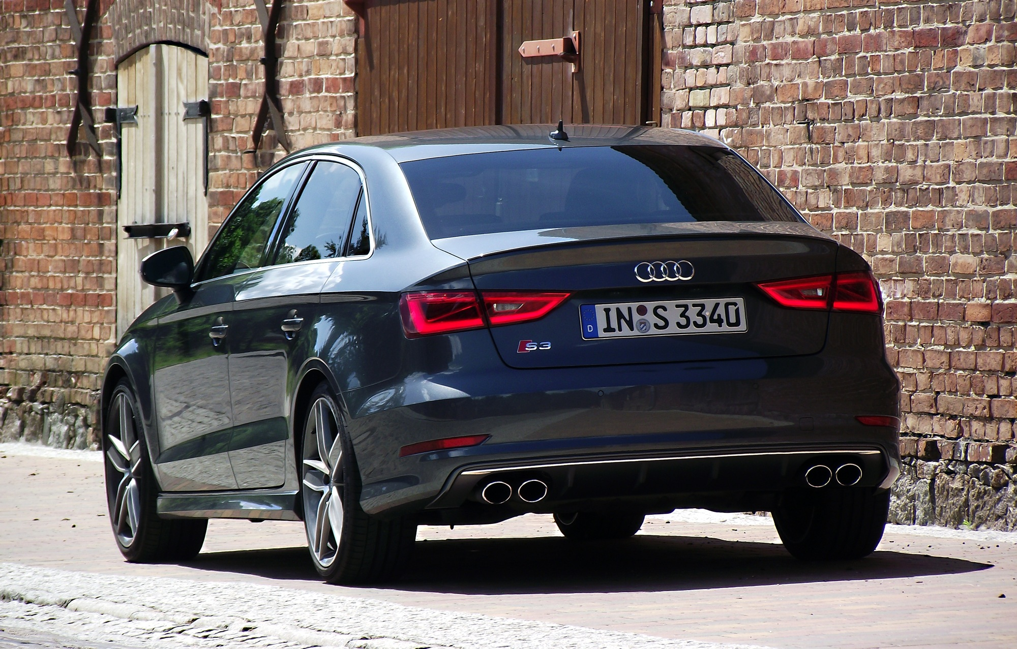 Audi S3 Sedan 2.0 TFSI quattro Rear View